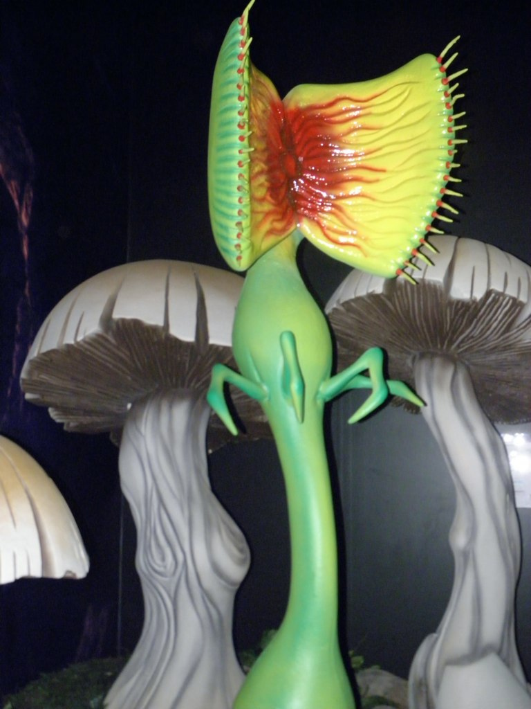 Theming in the pre-show room of Journey to the Center of the Earth 4-D Experience at Warner Bros. Movie World.